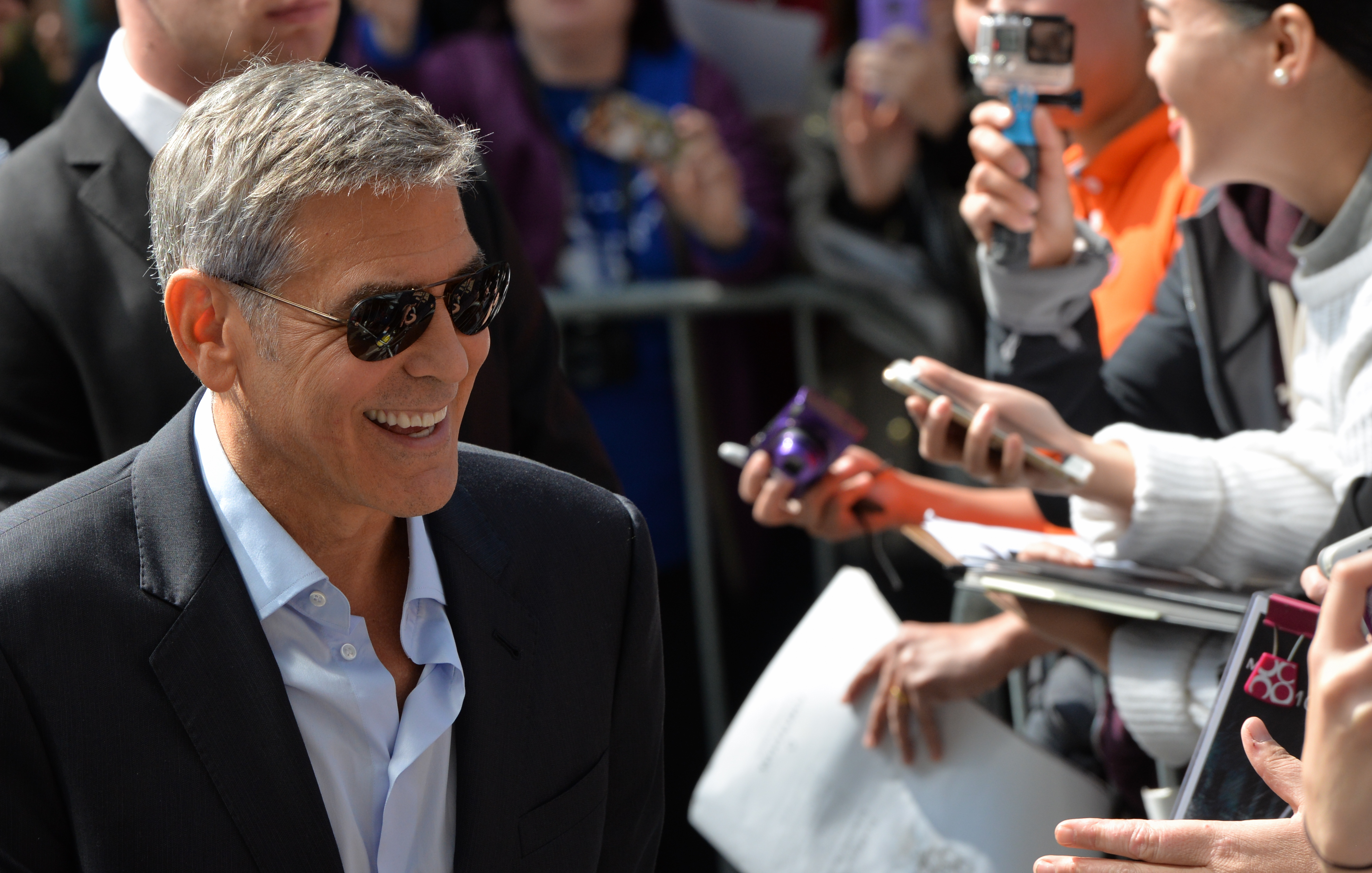 TIFF 2017 George Clooney (1 of 1)